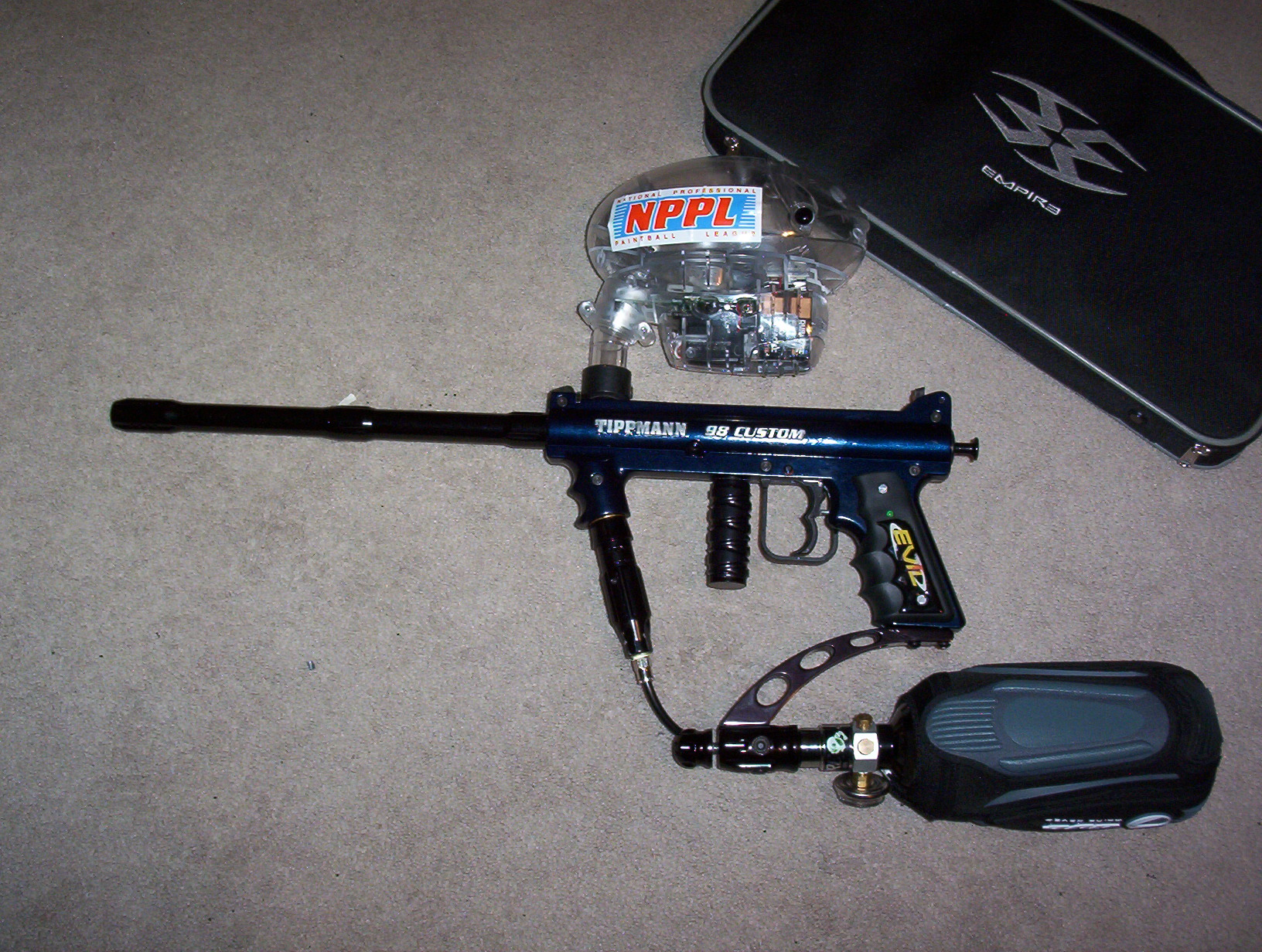 A fully customised Tippmann 98c.